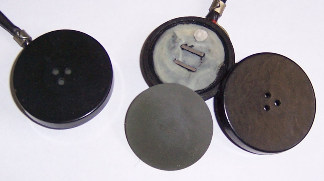 Earphone unit, assembled (left) and disassembled (right). It consists of a permanent magnet (top center) with electromagnet windings around its poles (not visible, under the grease), with its poles near a steel diaphragm (bottom center). The magnetic field of the magnet attracts the diaphragm. When an audio signal current is applied to the electromagnet, it creates a varying magnetic field that alternately strengthens and weakens the magnet's pull on the diaphragm. So the diaphragm moves back and forth, pushing on the air, creating a sound wave.